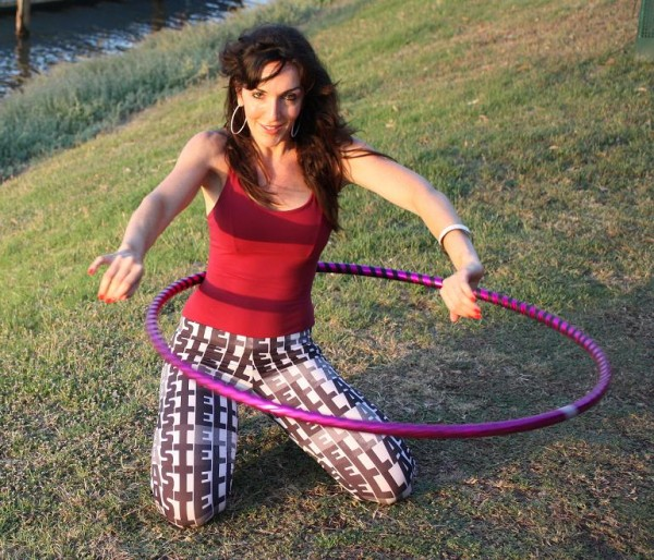 Hoop Dancer enjoys her hula hoop in the park